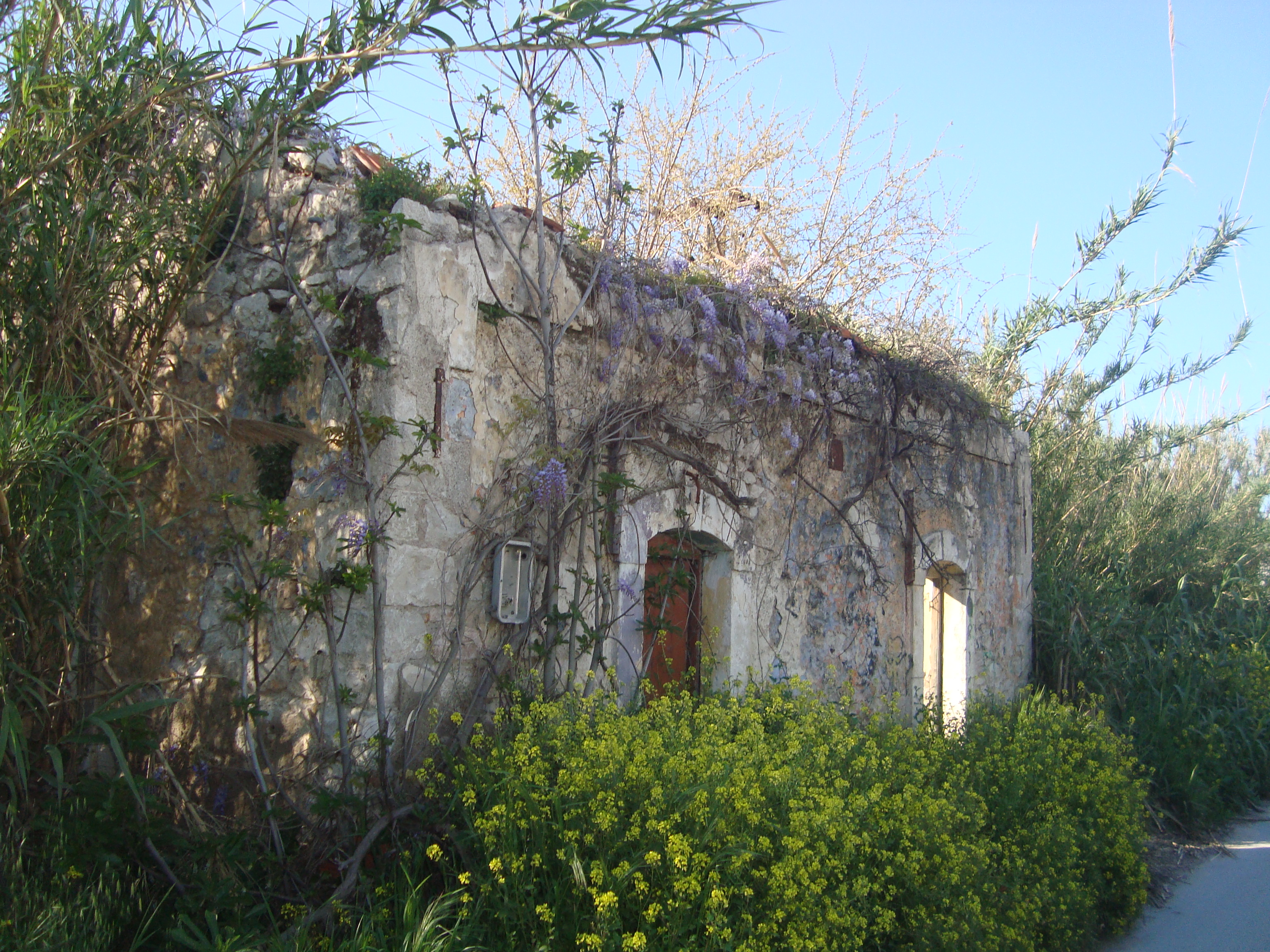 Old train station in Ities Patras